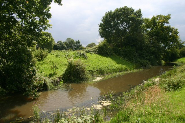 Moat of Mileham Castle These remains of a Norman motte and bailey castle (built around 1100) were only recently discovered after being lost in undergrowth for decades. It was abandoned by the beginning of the 14th century.